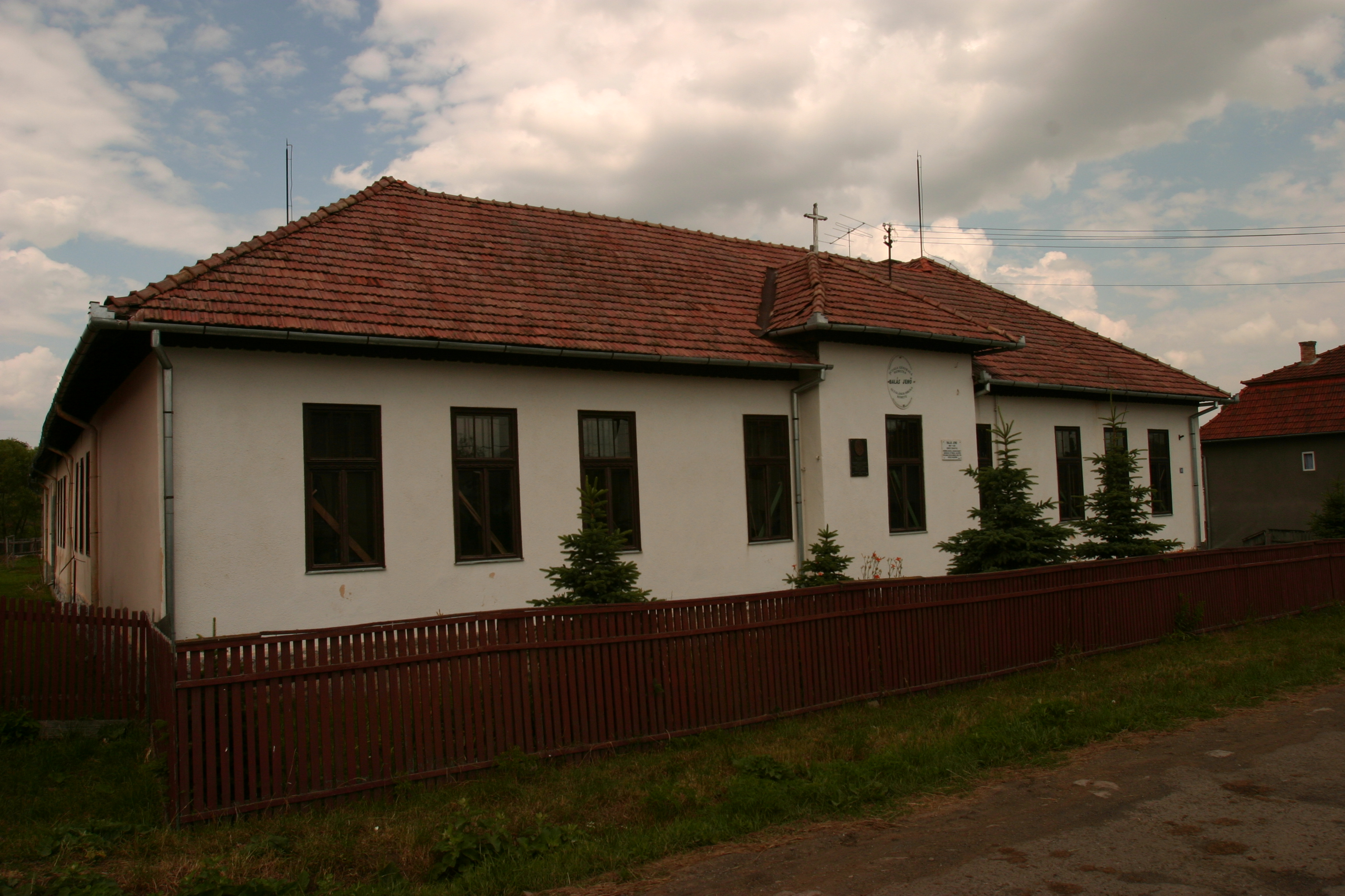 Balás Jenő school in Gyergyóremete